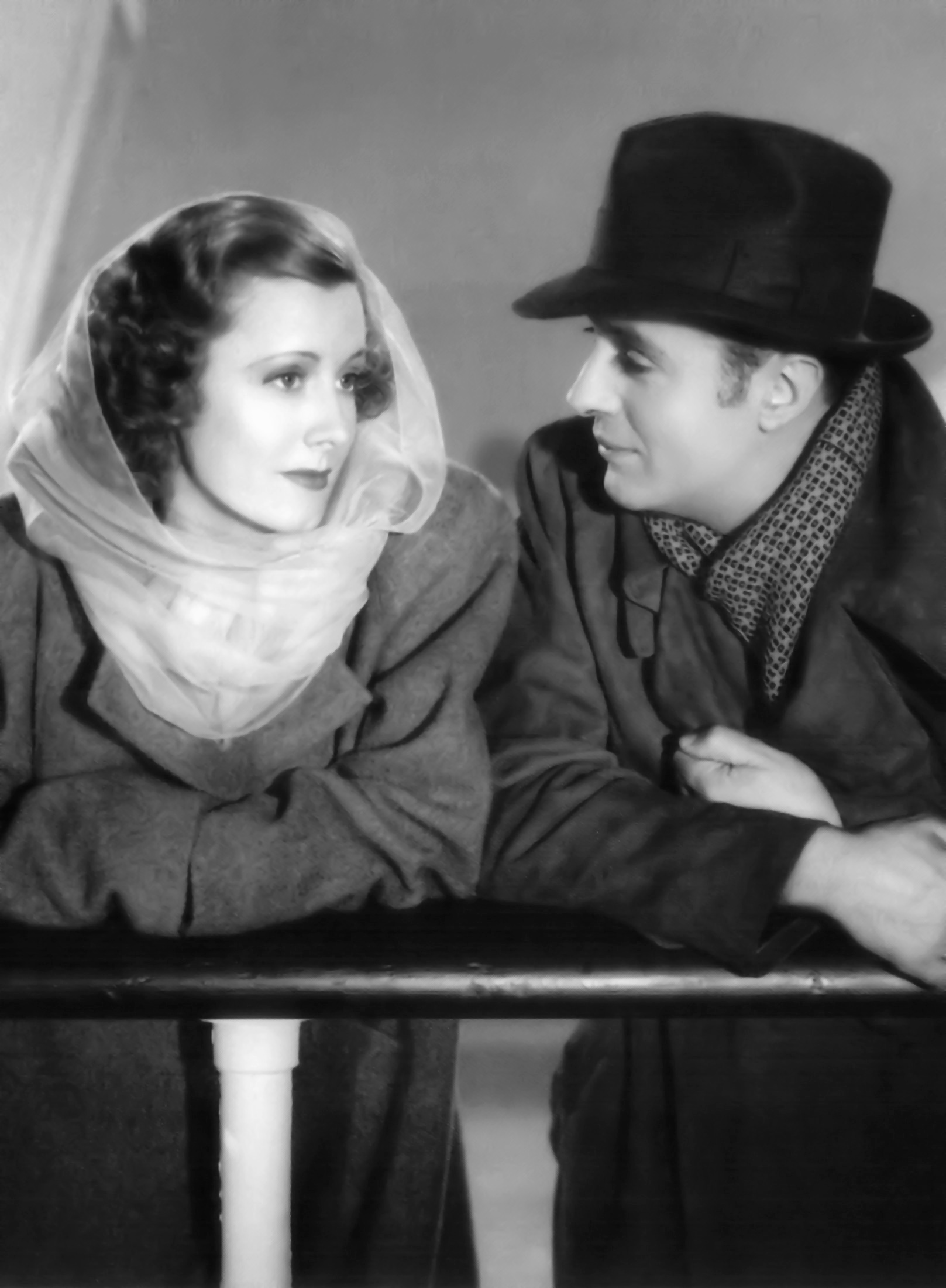 Irene Dunne & Charles Boyer in Love Affair - cropped screenshot